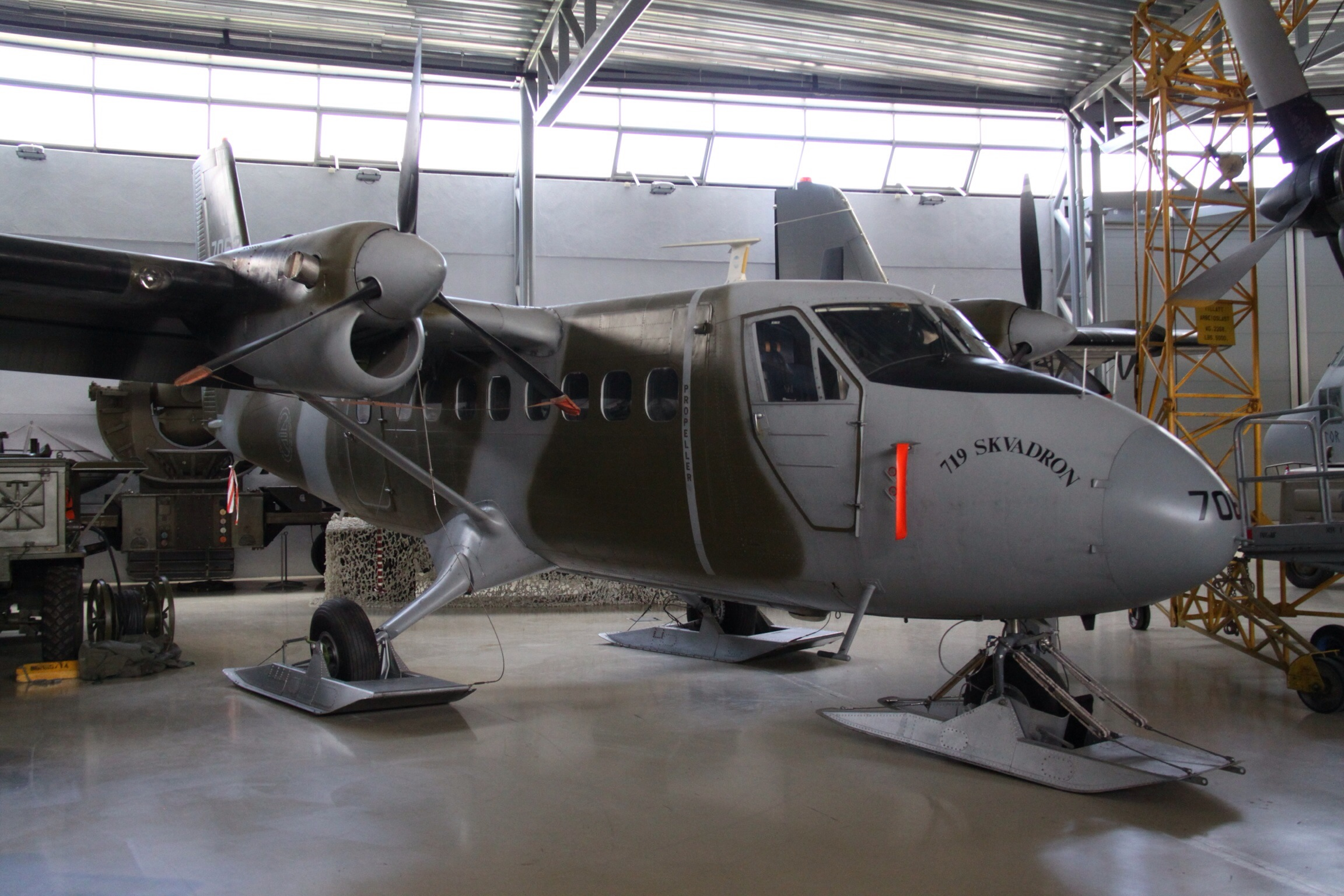 At Oslo Gardermoen